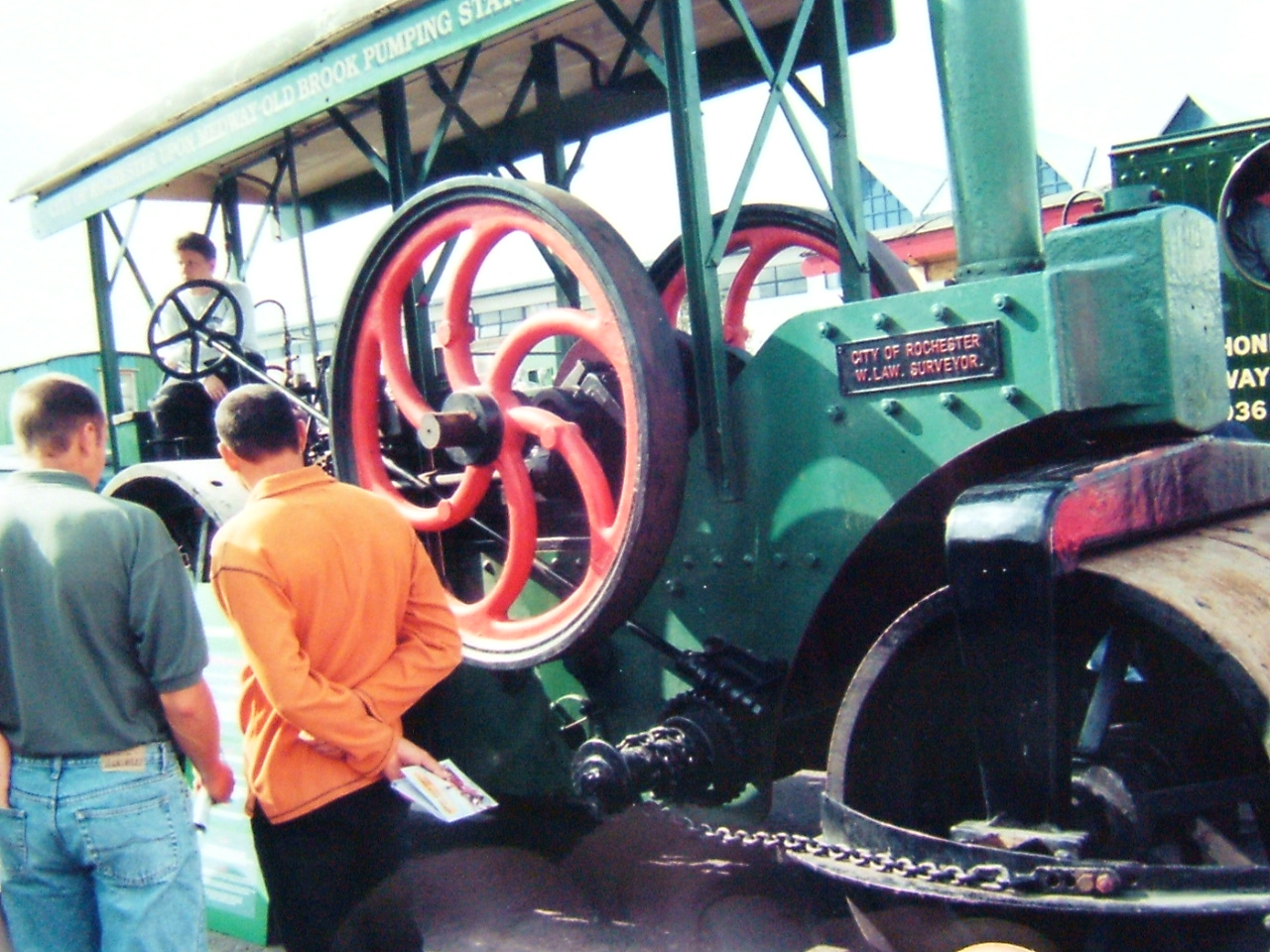 An Aveling and Porter Roller, owned by City of Rochester Museum in 1993, in the grounds of the Civic Centre, the former Aveling and Porter Factory, at the Strood Steam Festival. This is a 13ton example from 1925. It is powered by a Blackstone ESK (diesel) engine developing 28bhp. The 'chimney' houses the exhaust pipe! (Further information at Oldbrook Pumping Station Museum website.)